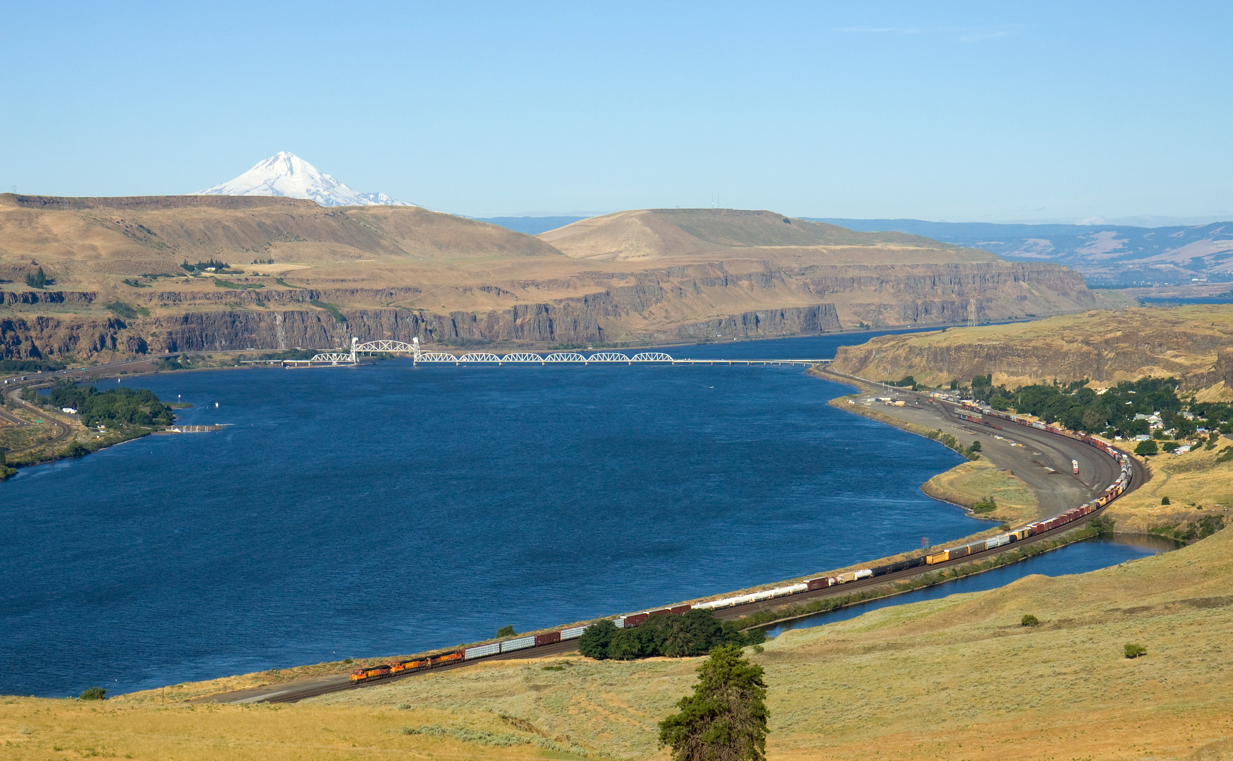 BNSF railway station Wishram (WA) with its shunting yard and the railway bridge crossing the Columbia river. The three BNSF units at the bottom of the picture are probably GE Dash-9 C44-9W.